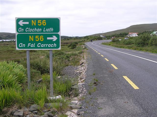 Road at Gweedore To the left is Dungloe and on the right is Falcarragh